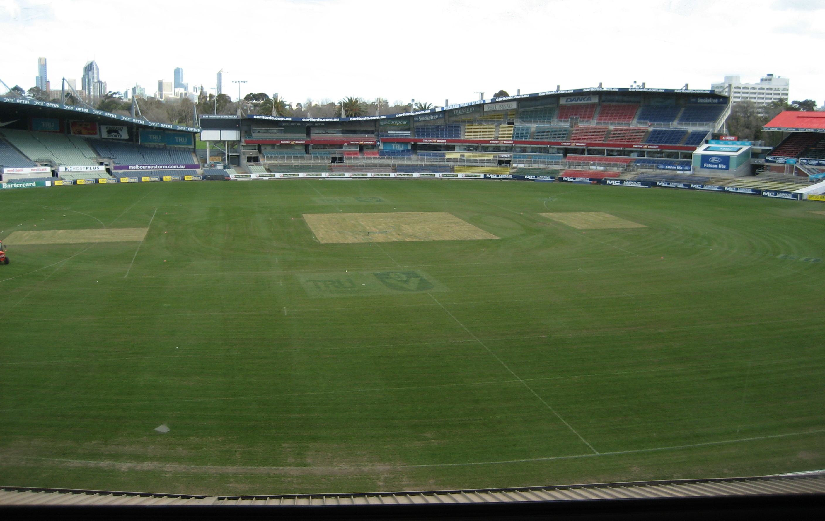 At princes park